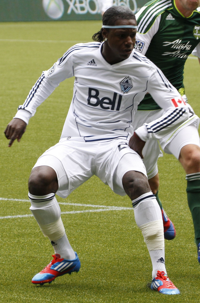 Freddie Braun defends Darren Mattocks during Portland Timbers vs Vancouver Whitecaps reserve match.